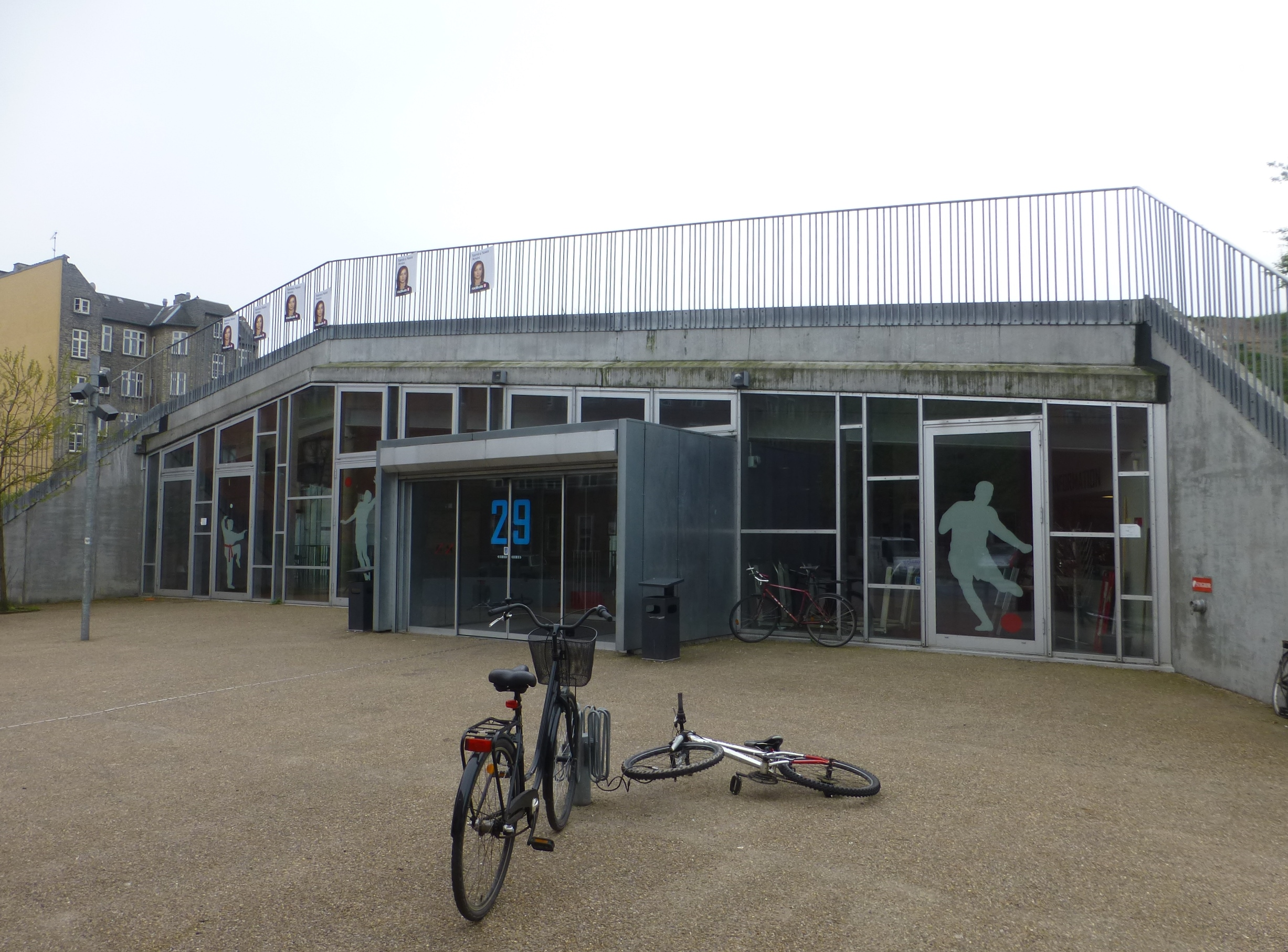 The main entrance to the sport venue Korsgadehallen in Nørrebro in Copenhagen. Above it is a artificial hill.